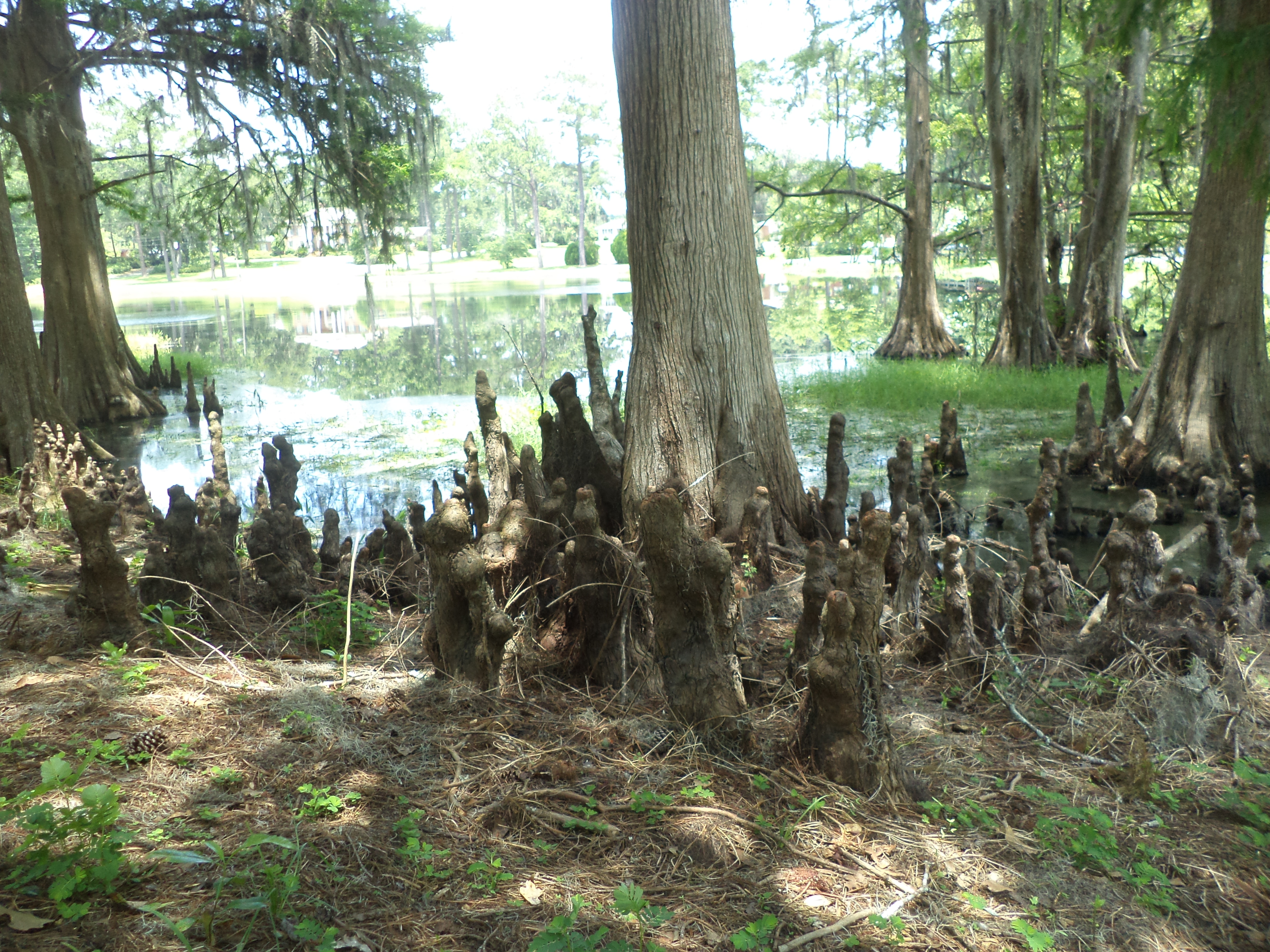 Lake Irma, Lakeland, Lanier County, Georgia